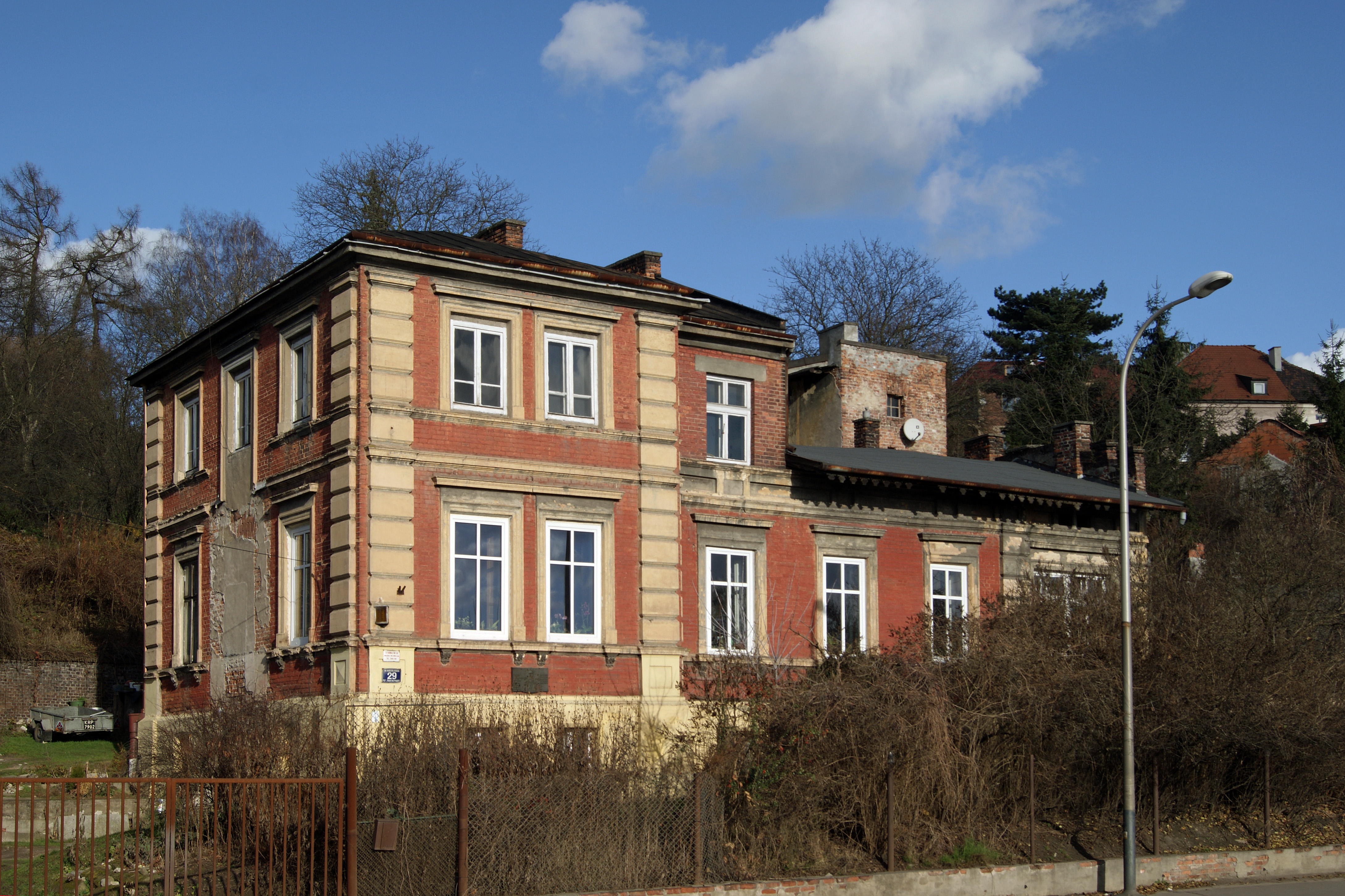 House of Jacek Malczewski (Polish painter), 29 Księcia Józefa street, Zwierzyniec, Kraków, Polska